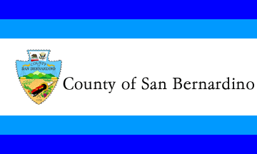 The official flag of San Bernardino County — in Southern California.